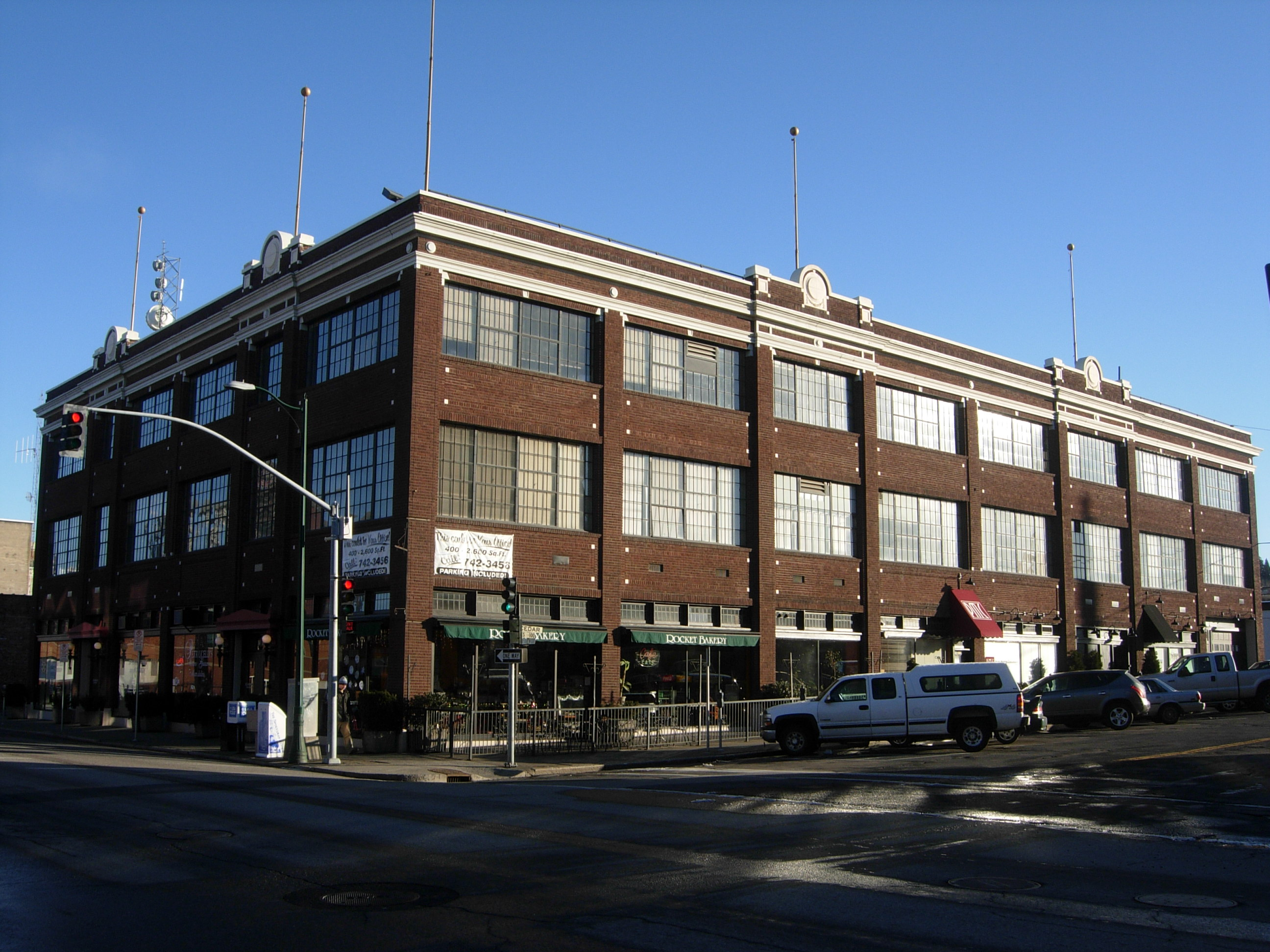 The Eldridge Building in Spokane, Washington